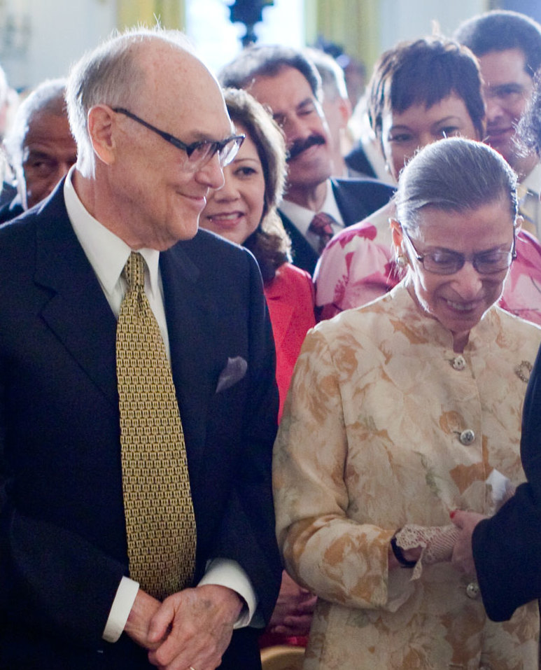 Justice Ruth Bader Ginsburg and her husband Martin D. Ginsburg in 2009 (Official White House Photo by Pete Souza)